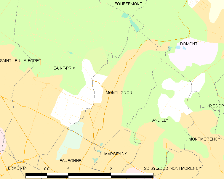 Map of French municipality Montlignon